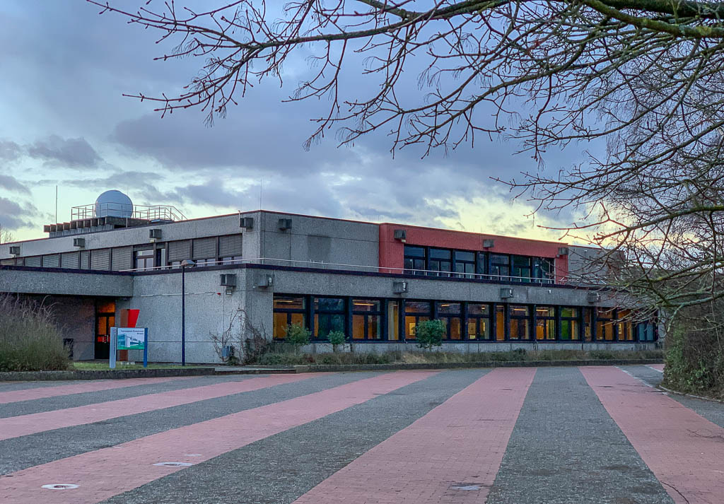 North view of the Gymnasium Ernestinum Rinteln with observatory on the roof